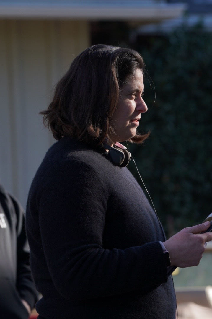 Director